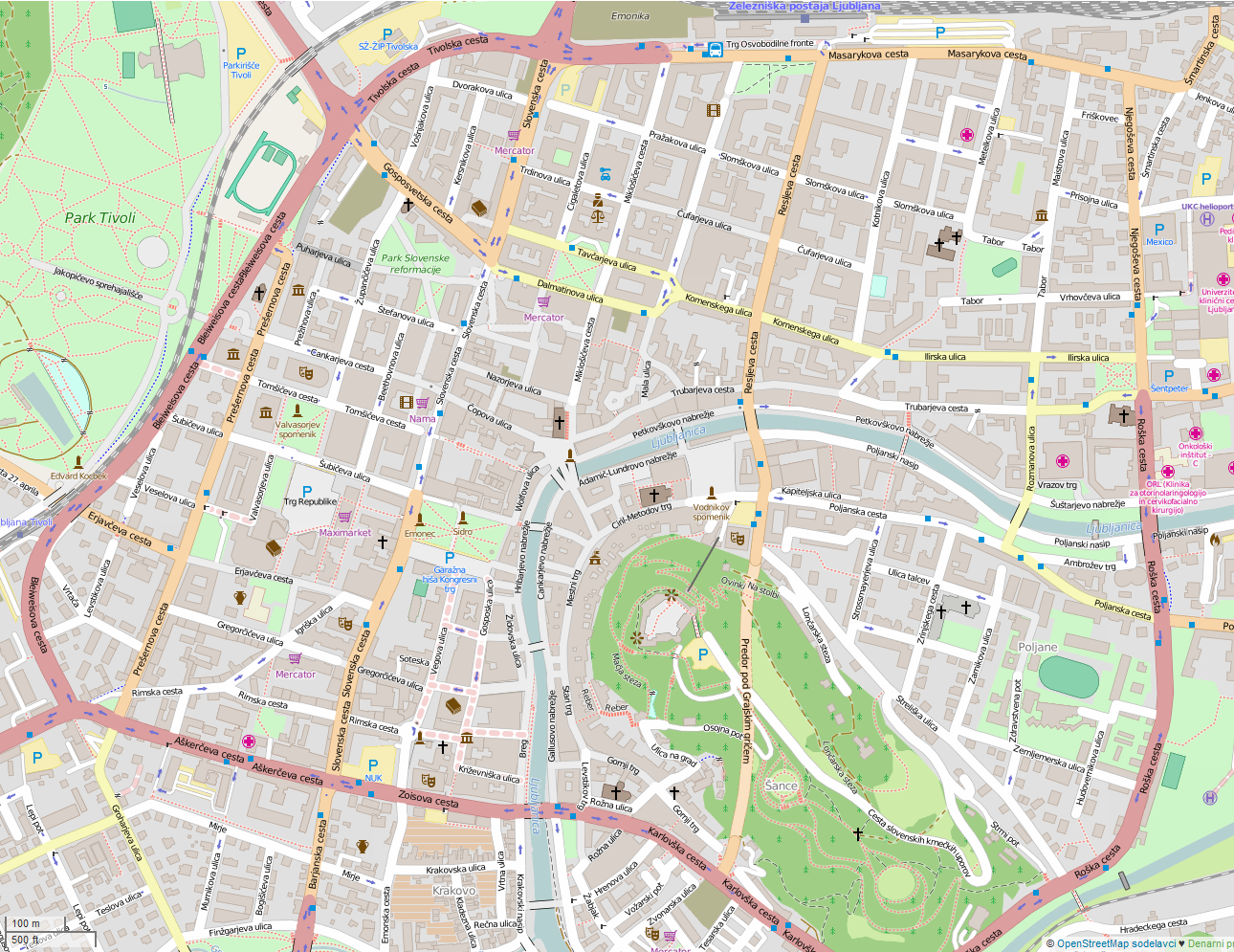 This map of Ljubljana-center was created from OpenStreetMap project data, collected by the community. This map may be incomplete, and may contain errors. Don't rely solely on it for navigation.